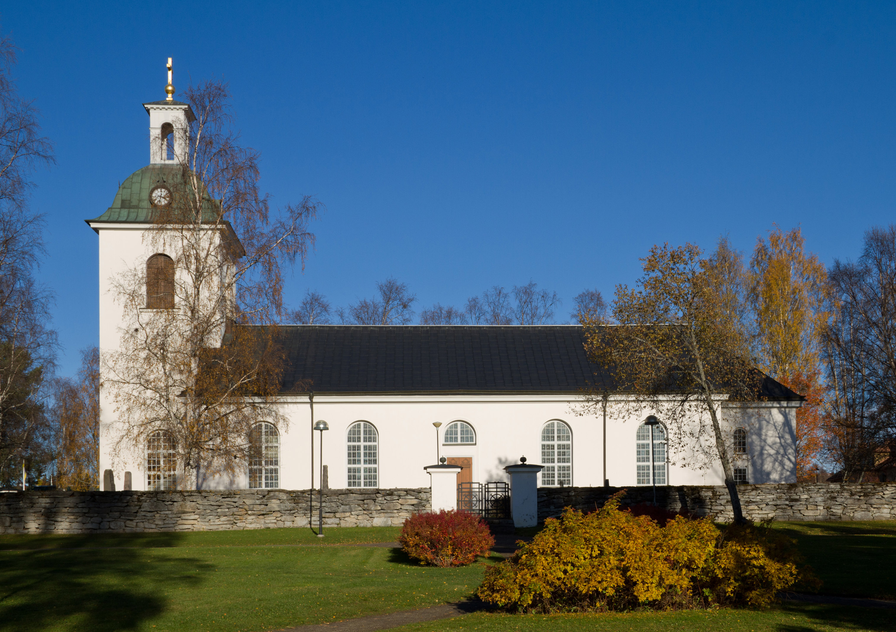 Ströms church in Strömsund, Jämtland, Sweden